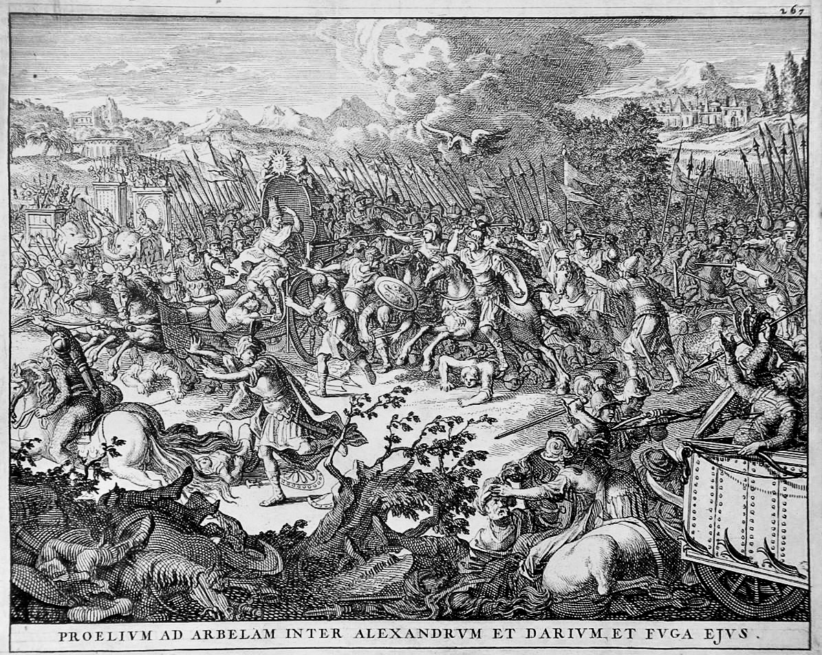 Alexander old drawings. The battle of Arbela (Gaugamela) between Alexander and Darius, the latter being in flight. On read a Latin inscriptions on the bottom margin: "Proelium ad Arbelam inter Alexandrum et Darium et fuga ejus")